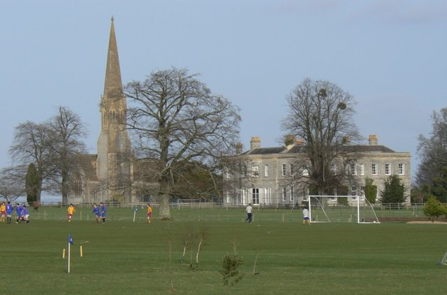 Football practice in front of Kingweston Church The Church and House are prominent features in this open landscape. Students from Millfield School are playing football at their countryside sports facility - also used for Polo.